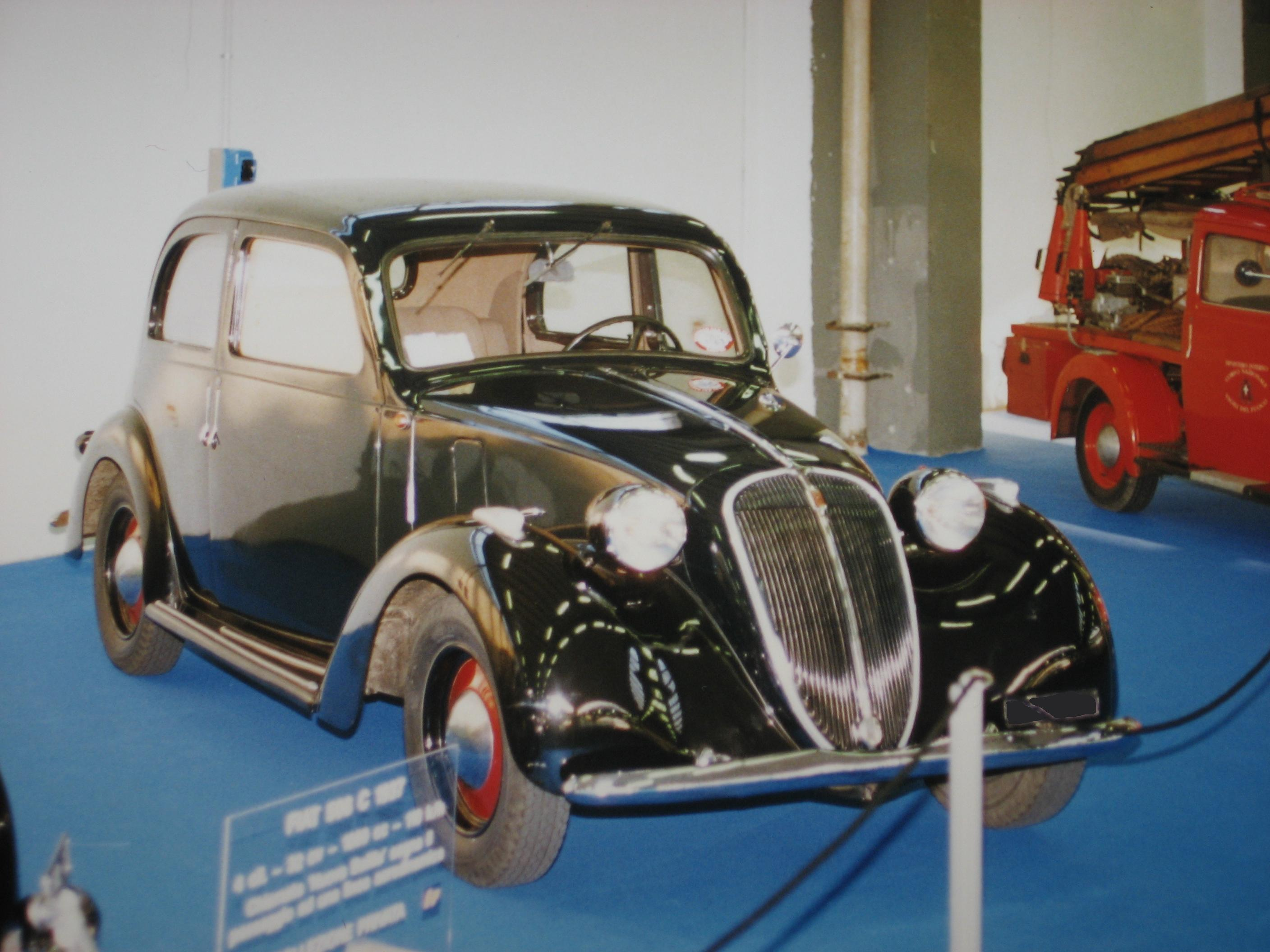 Subject: Fiat 508C "Nuova Balilla" (1937) Author: Luc106 Date: February, 1996 City/Country: Genoa, Italy Event: Autostory I release all rights in the public domain